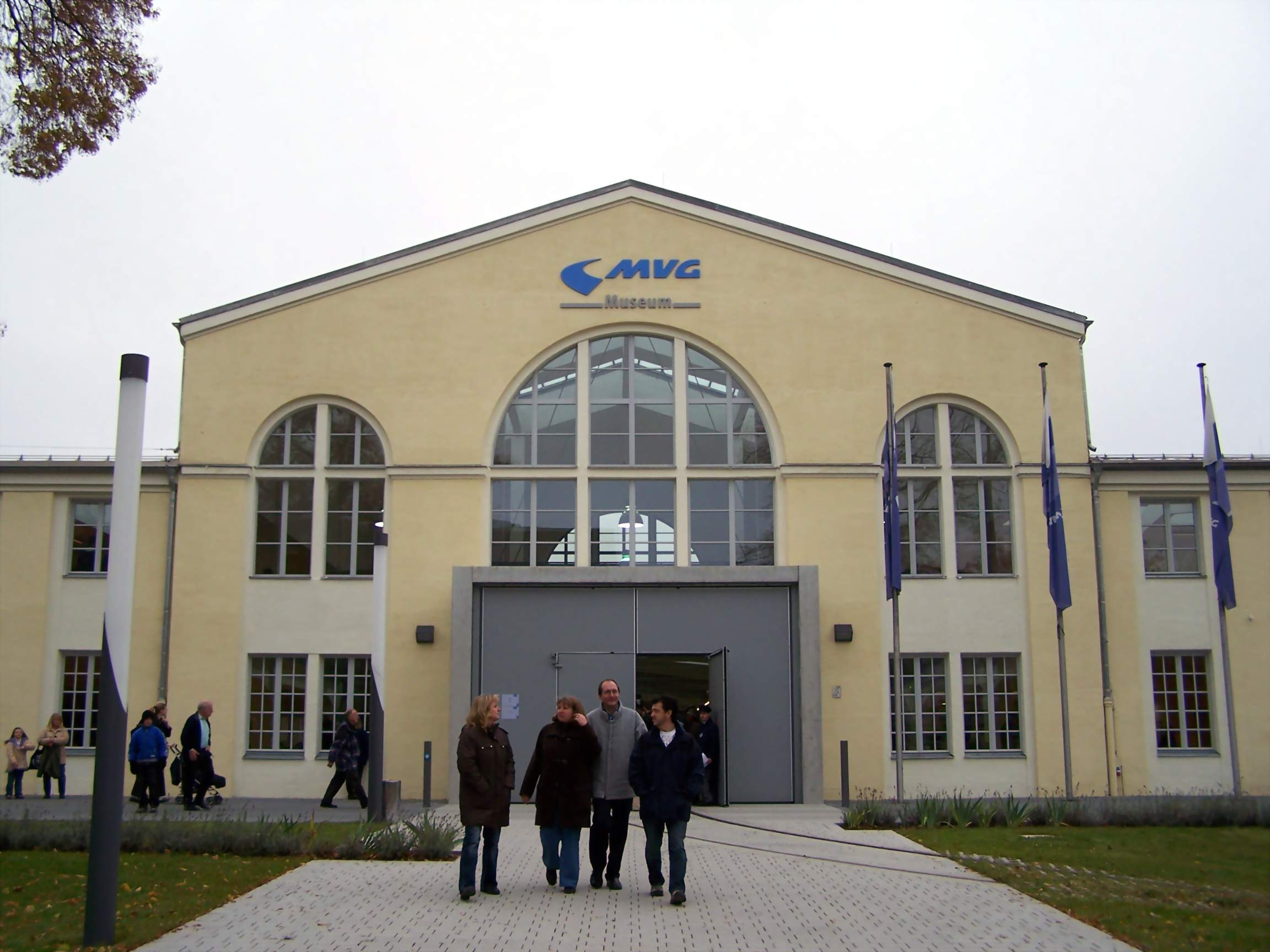 the Munich transportation museum in Munich-Ramersdorf; main building